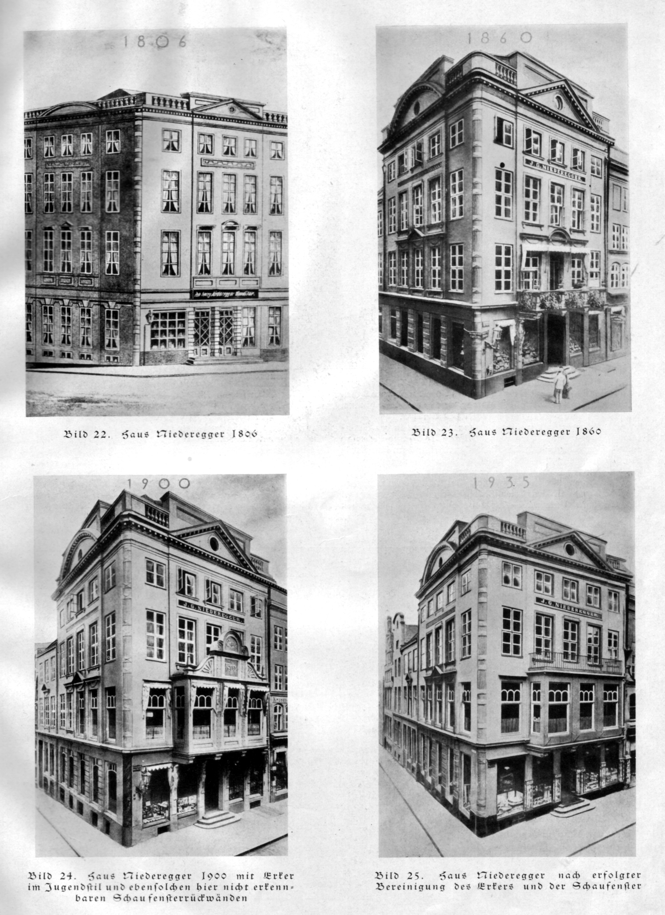 The building Breite Straße No. 89 in Lübeck (destroyed in 1942), parent house of Niederegger company.